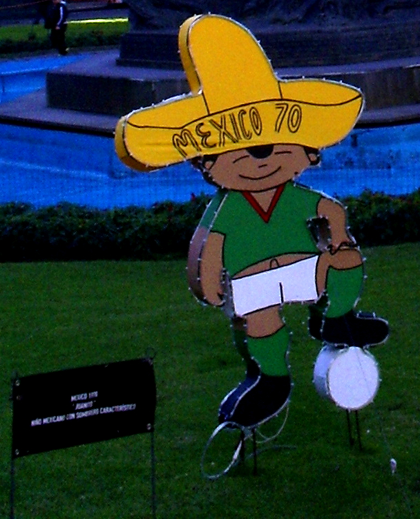 Reproduction of Juanito, the 1970 FIFA World Cup mascot